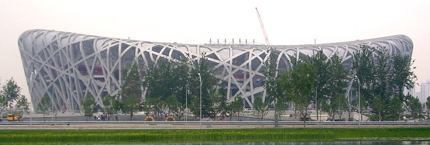 Recent higher resolution image of the Beijing Olympic Stadium